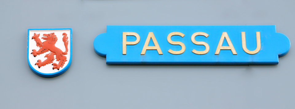 Name sign and City of Passau crest that were mounted on the starboard and port bridge wings of German Minehunter Passau